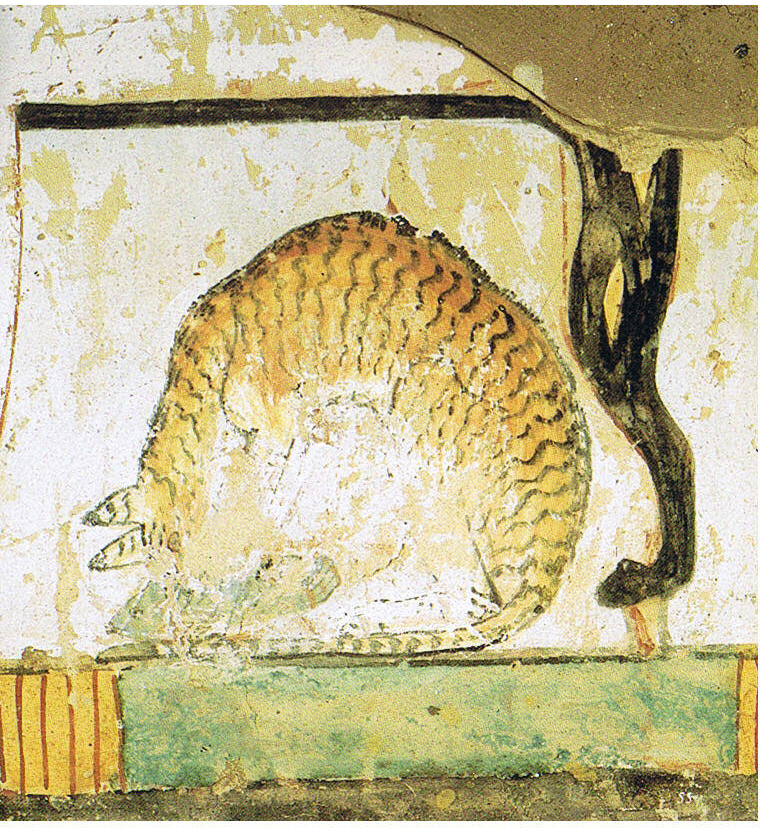 A cat eating a fish under a table